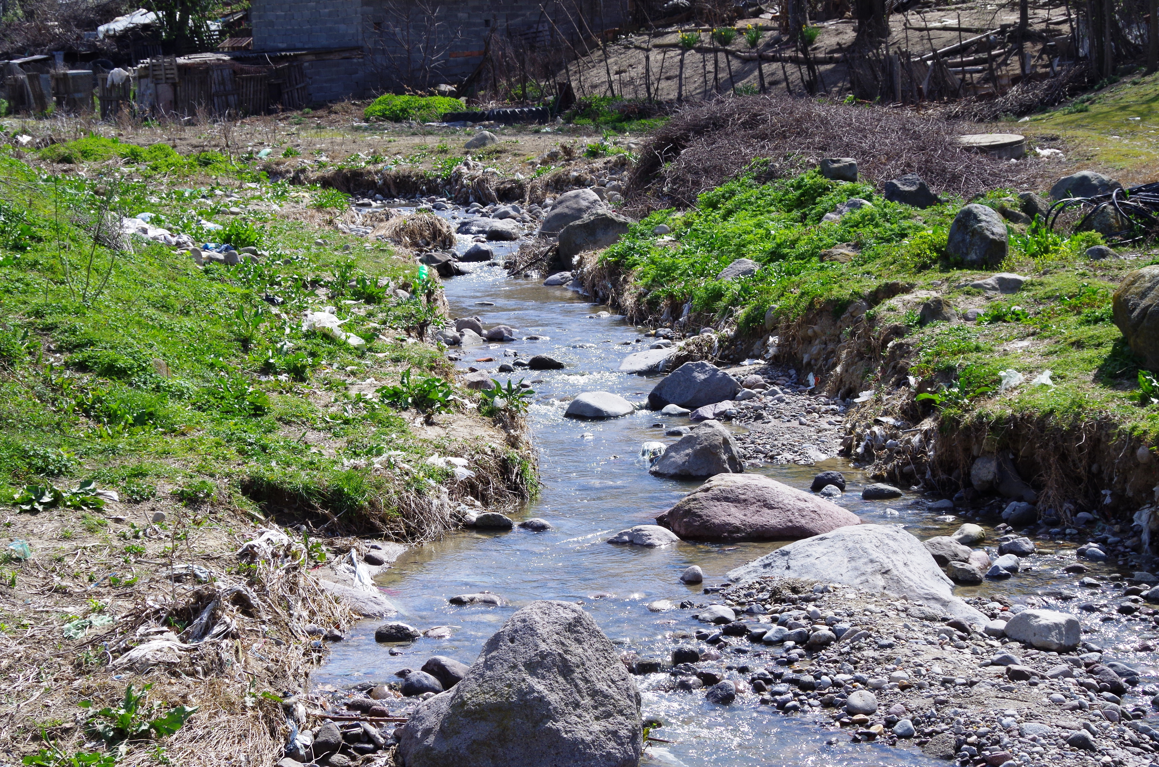 Disanska River through the village Dolni Disan